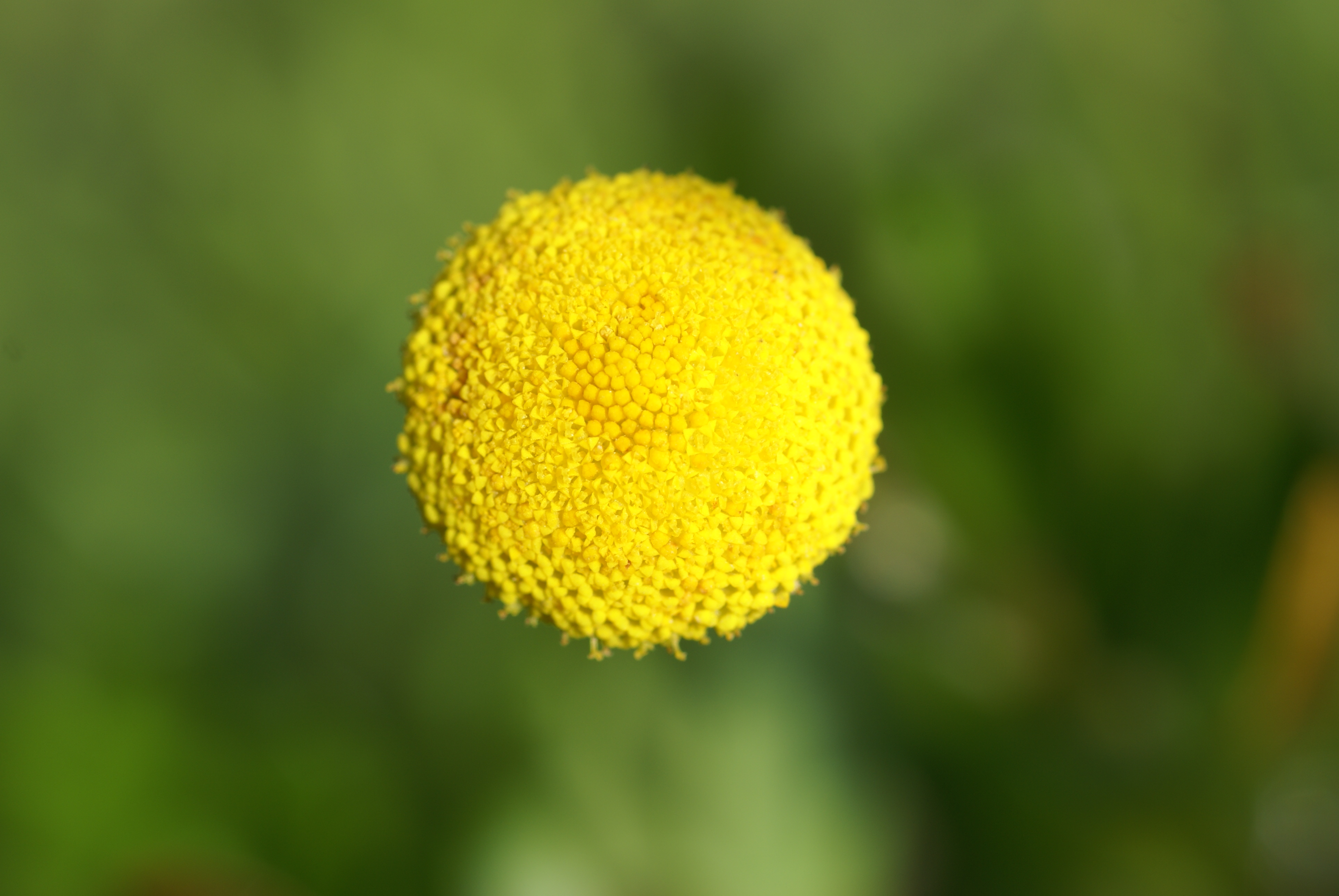 Plant species Cotula leptalea in Bergianska trädgården in Stockholm